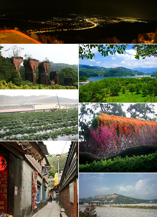 Montage of various Miaoli County images. 中文（台灣）: 苗栗縣的蒙太奇。